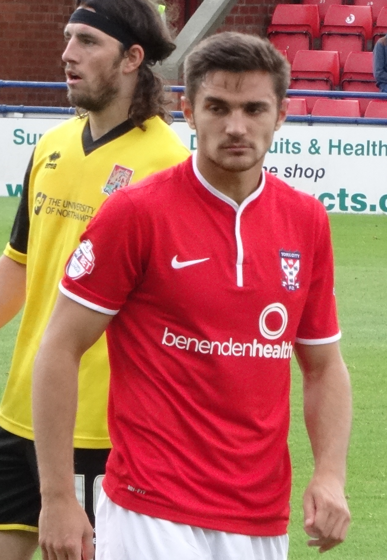 Tom Platt playing for York City against Northampton Town at Bootham Crescent, York on 16 August 2014